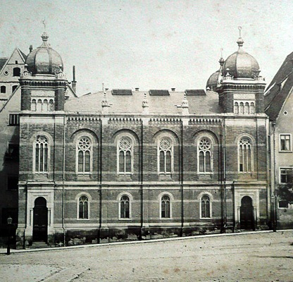 s